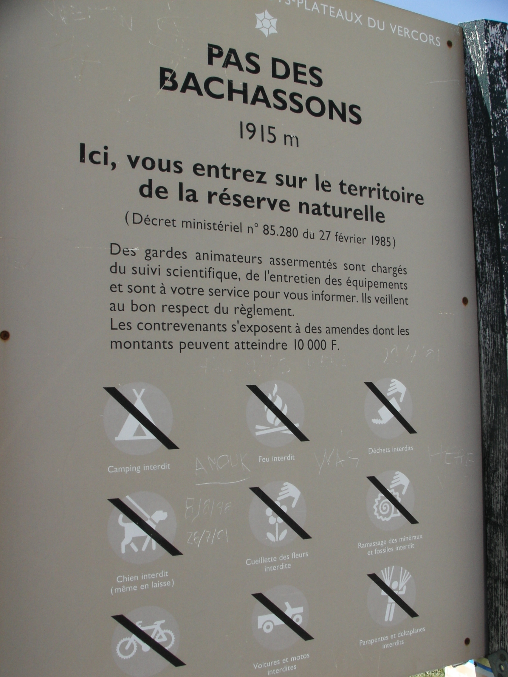 Signpost at the entry of the Réserve Naturelle des Hauts Plateaux du Vercors